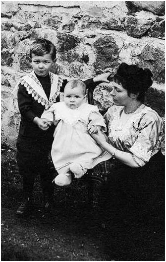 Young Olivier Messiaen with his brother Alain and his mother Cécile Sauvage